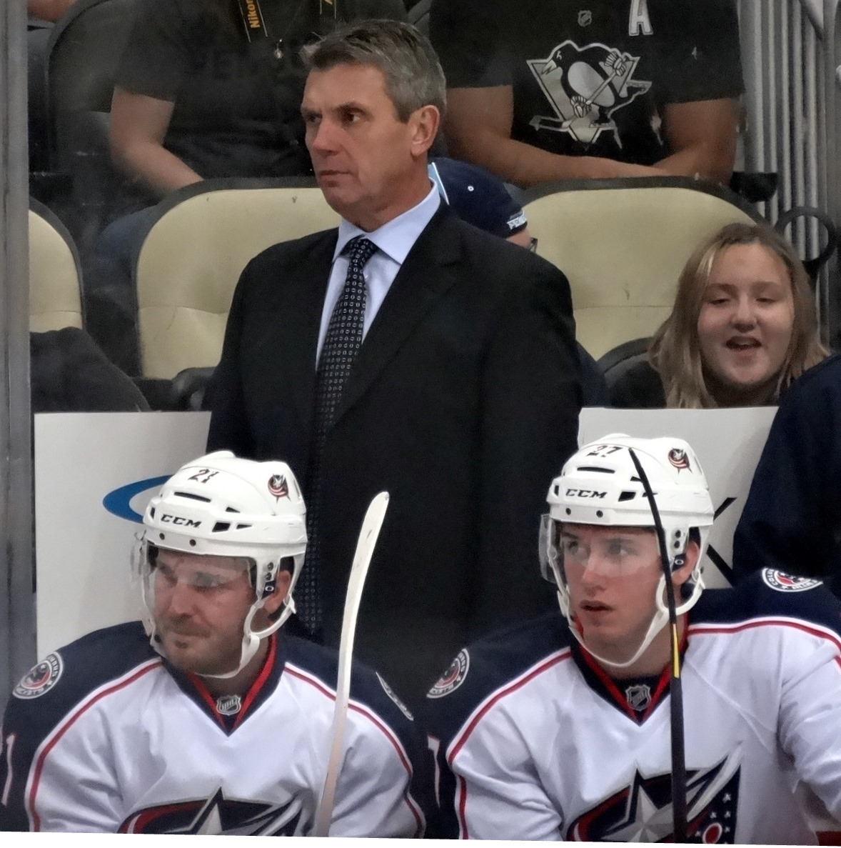 Columbus Blue Jackets associate coach Craig Hartsburg on the bench during a game against the Pittsburgh Penguins, November 1, 2013, at Consol Energy Center in Pittsburgh, PA.